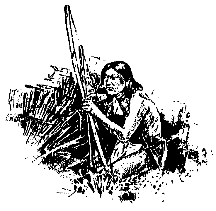 Apache bowman, waiting for an ambush.